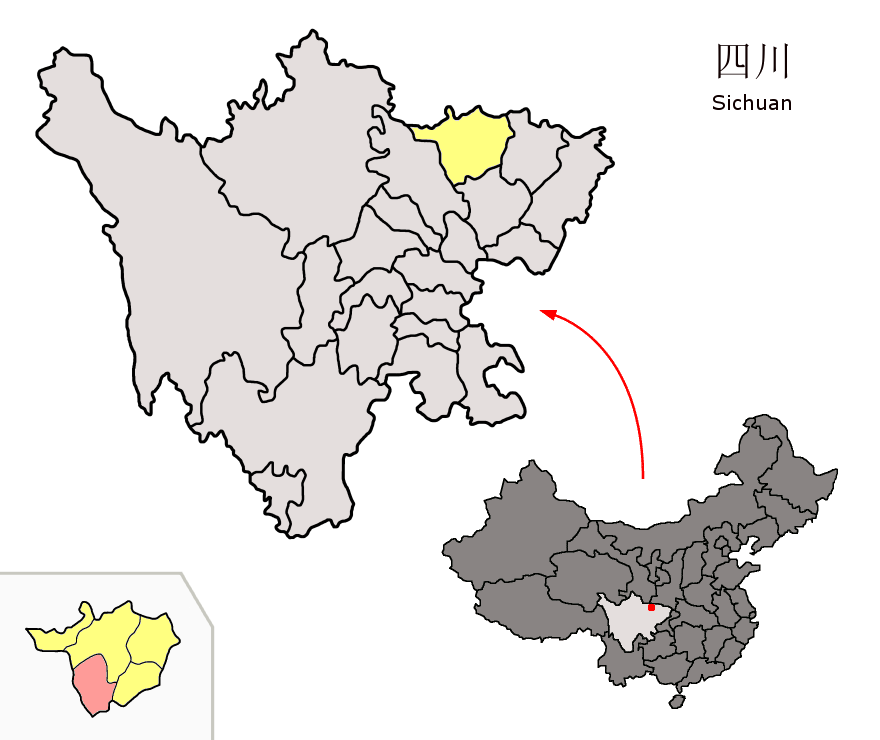 Location of Jiange County (pink) and Guangyuan Prefecture (yellow) within Sichuan province of China Map drawn in october 2007 using various sources, mainly : Sichuan province administrative regions GIS data: 1:1M, County level, 1990 Sichuan Counties map from